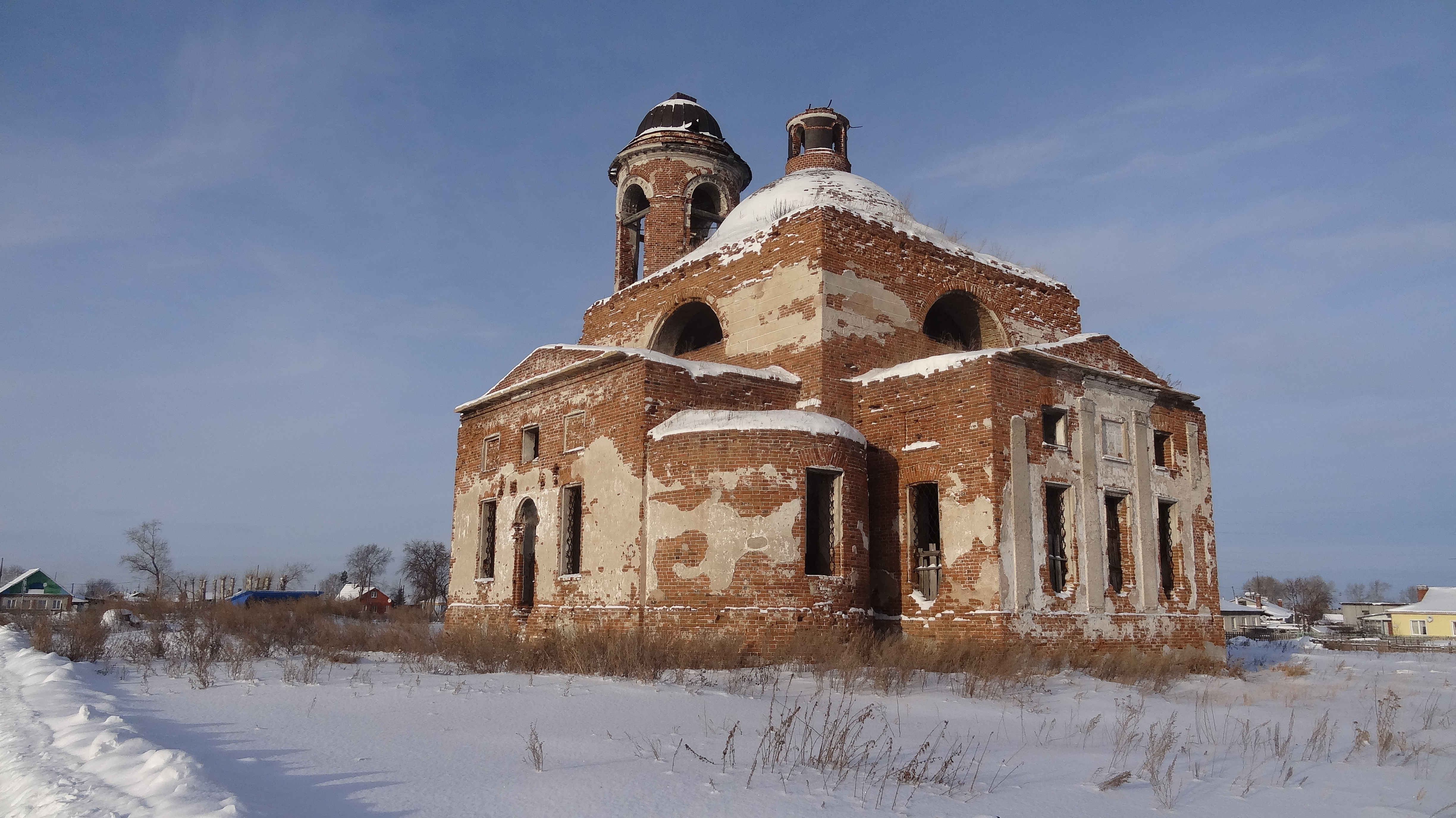 Church of the Entry of the Theotokos into the Temple in Travyanskoe village, Sverdlovsk Oblast, Russia. Mikhail Pavlovich Malakhov (1781–1842) DescriptionRussian architectDate of birth/death 1781 1842 Location of birth/death Chernigov Governorate YekaterinburgWork location Yekaterinburg, Kamensk-UralskyAuthority control : Q4276596 creator QS:P170,Q4276596